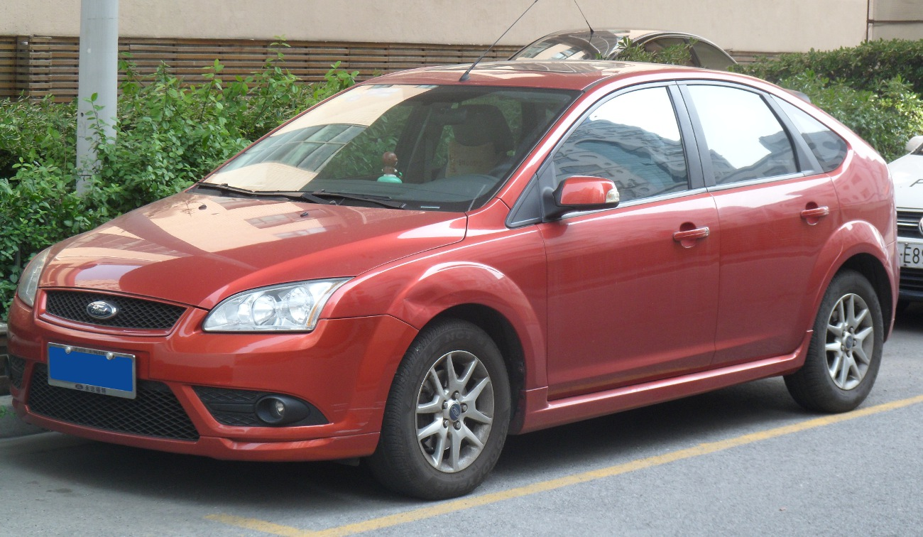 Ford Focus II hatch photographed in Shanghai, China.